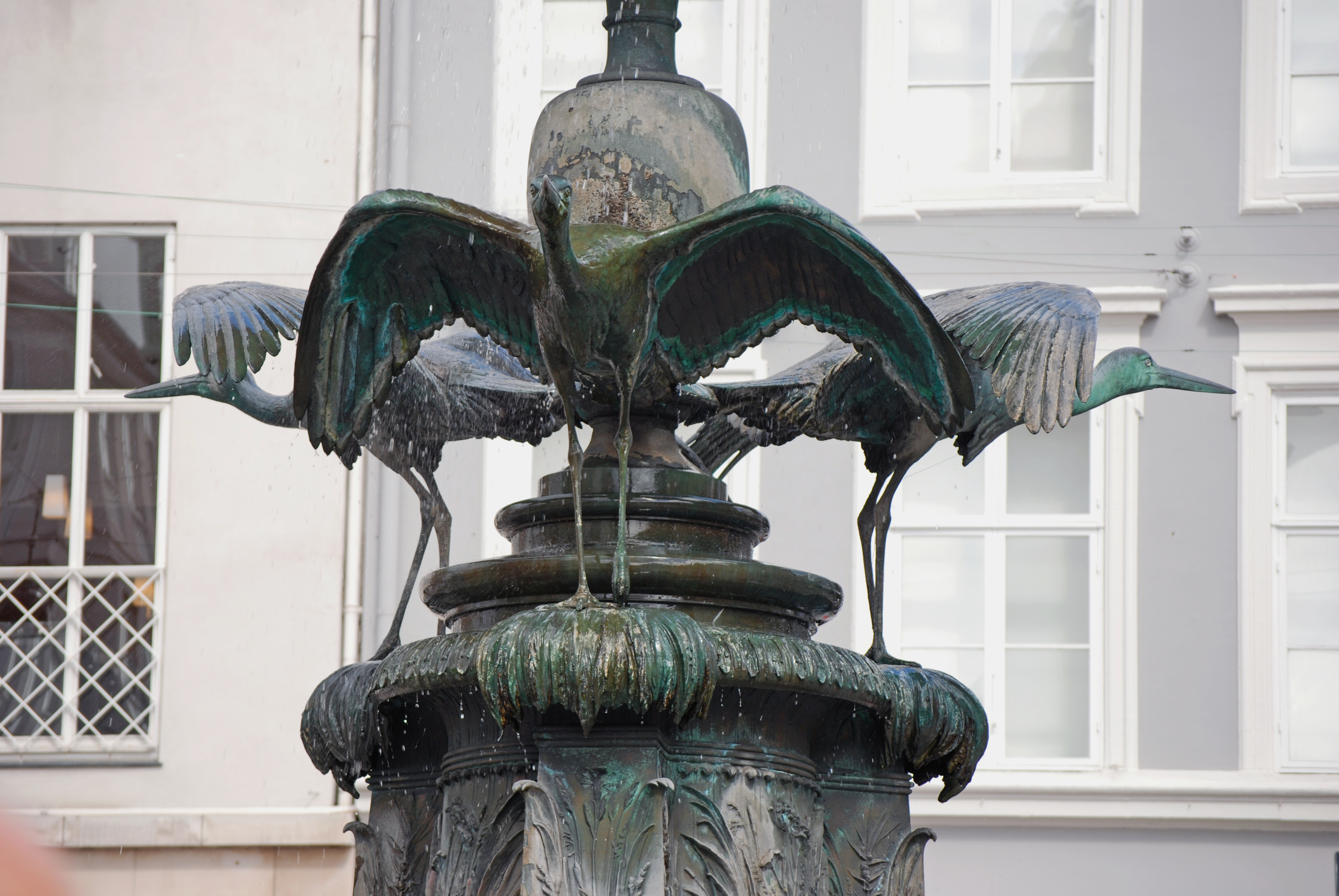 Detail from the Stork Fountain on Amagerplads in Copenhagen, Denmark